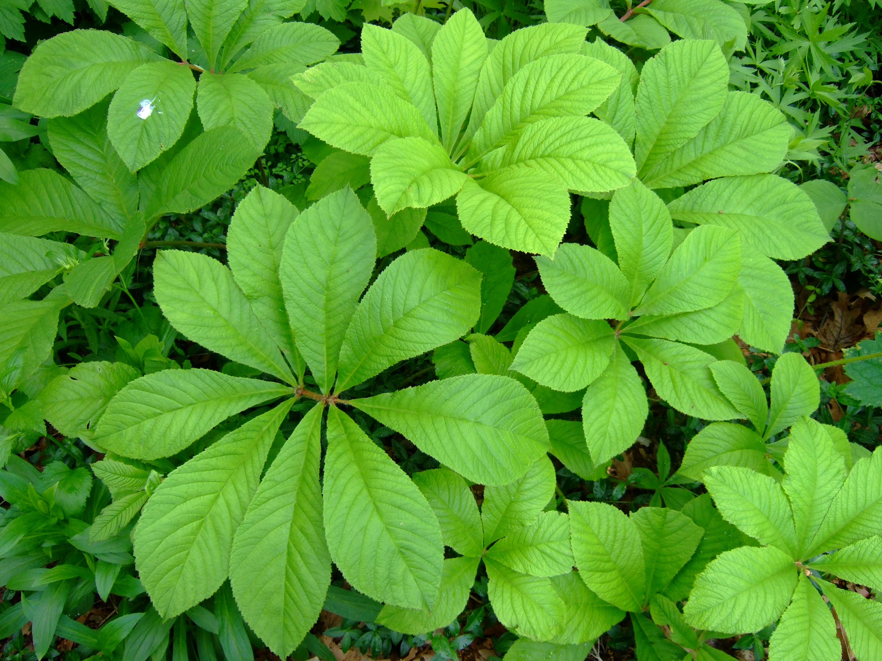 Rodgersia sambucifolia in the garden of botanist Robert R. Kowal, in Madison, Wisconsin.